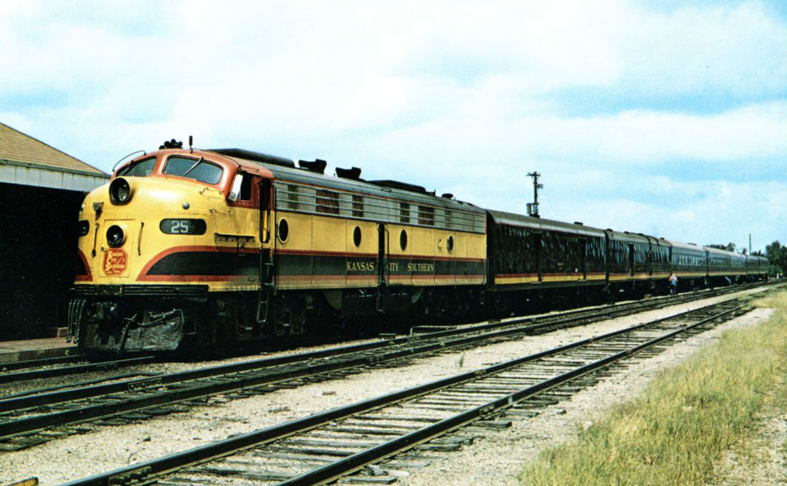 Postcard photo of the Kansas City Southern Railway's "Southern Belle" which traveled from Kansas City to New Orleans.